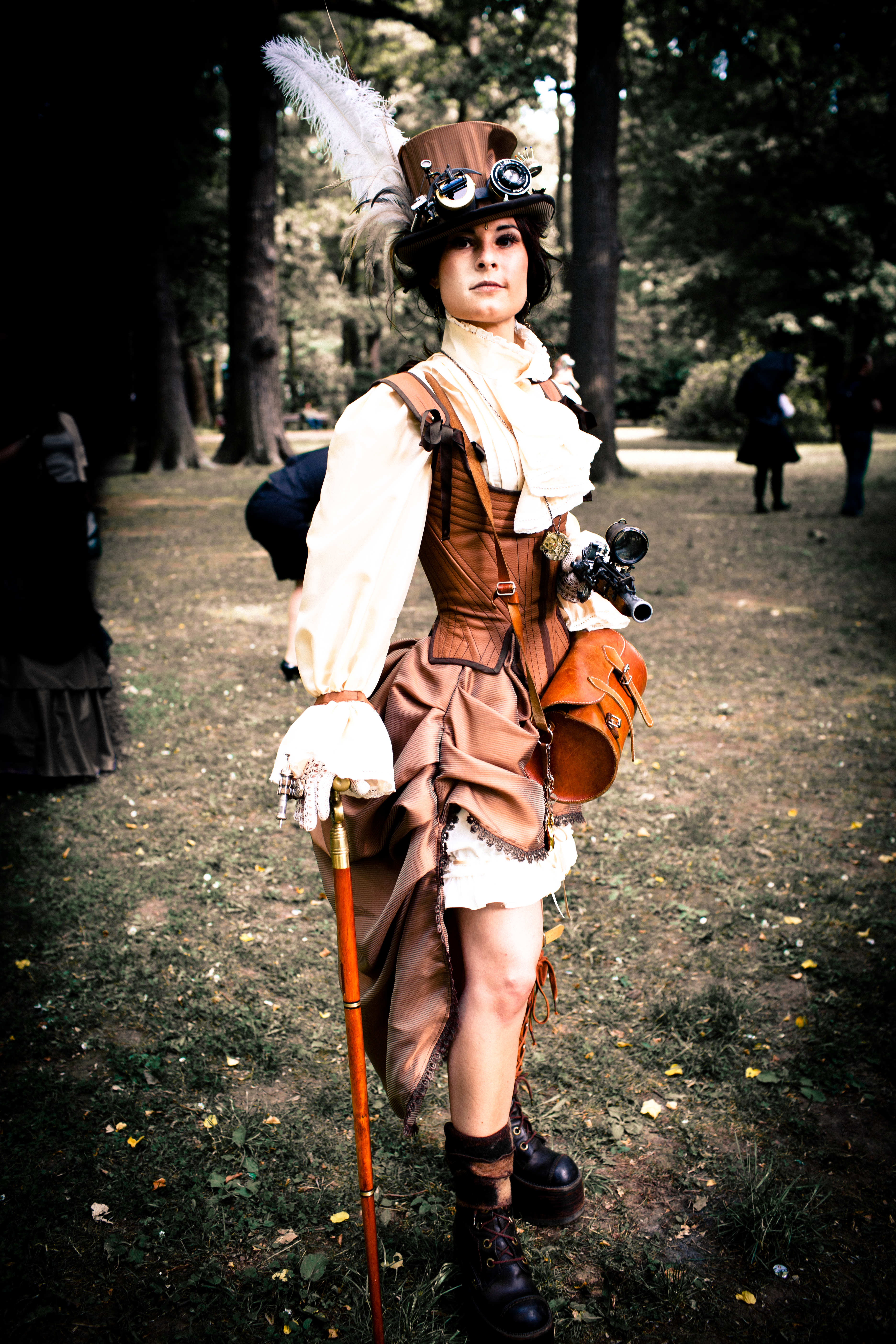 Taken at the Wave Gotik Treffen festival, Leipzig, Germany, June 2011